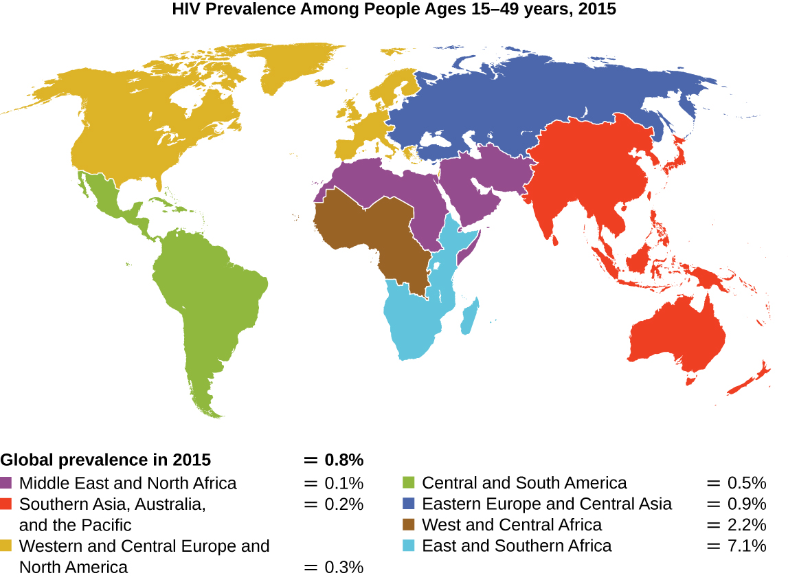 Name: Microbiology ID: Language: English Summary: Subjects: Science and Technology Keywords: Print Style: License: Creative Commons Attribution License (by 4.0) Authors: OpenStax Microbiology Copyright Holders: OpenStax Microbiology Publishers: OpenStax Microbiology Latest Version: 4.4 First Publication Date: Oct 17, 2016 Latest Revision: Nov 11, 2016 Last Edited By: OpenStax Microbiology